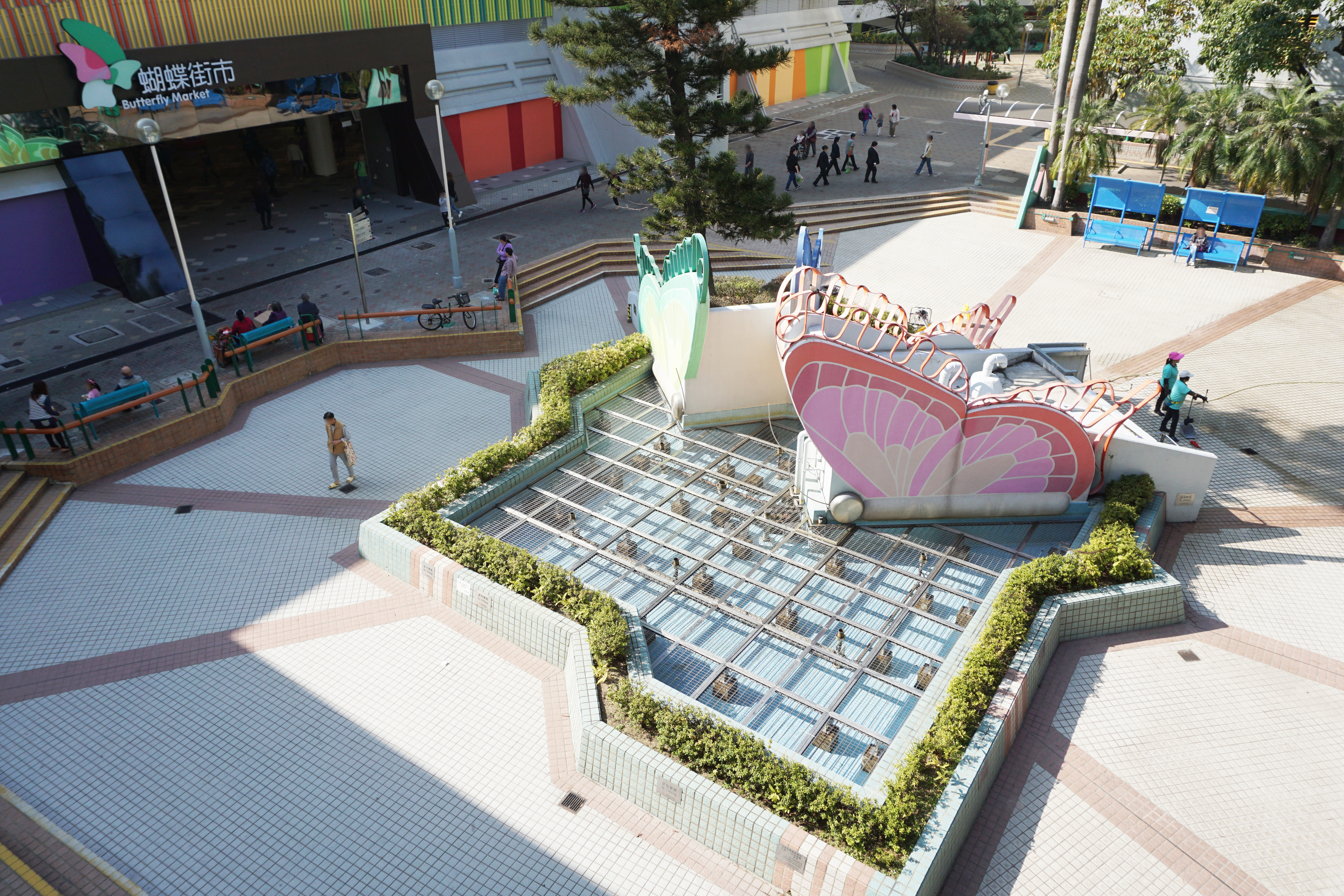 Butterfly Estate in Tuen Mun, Hong Kong.